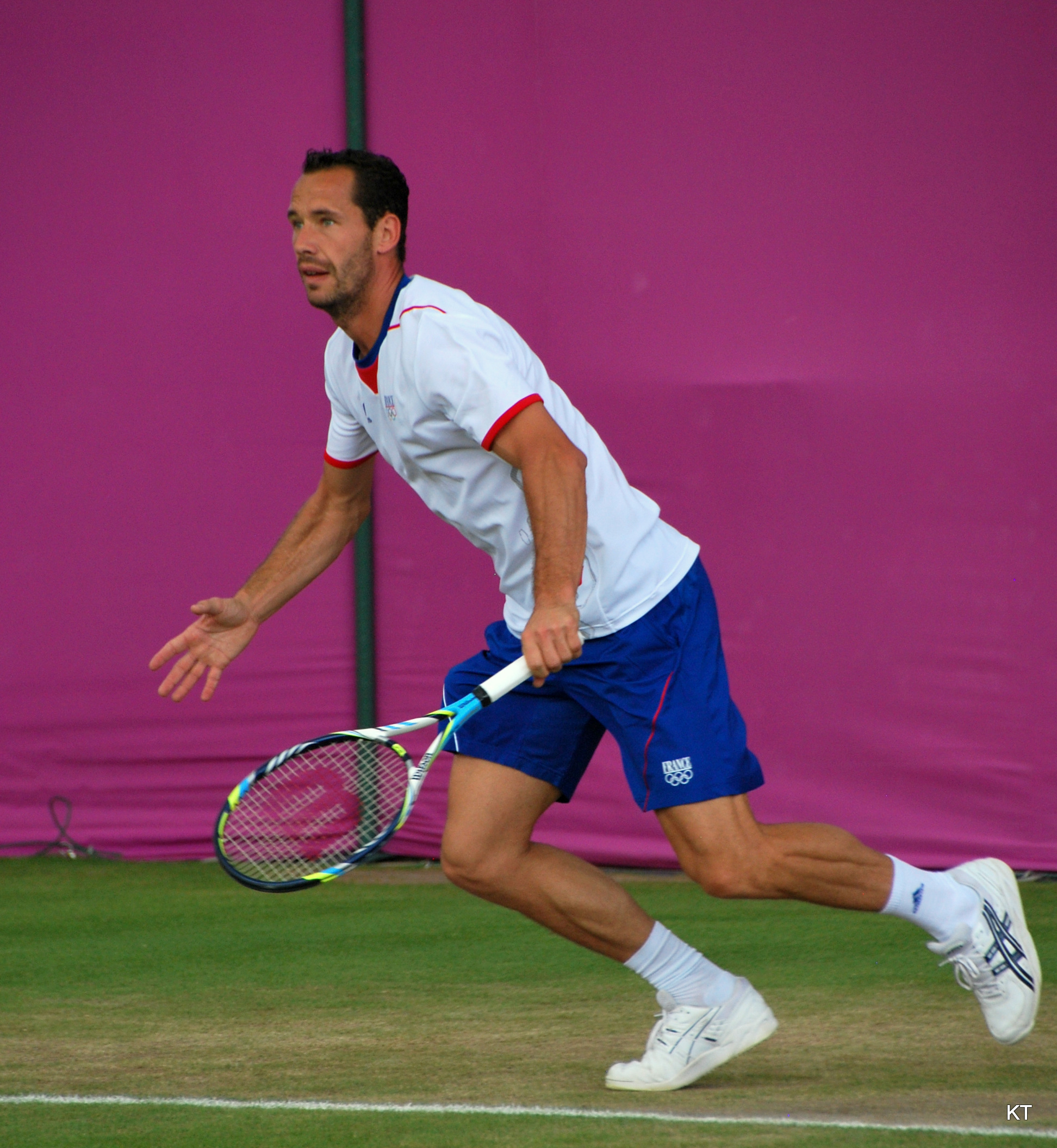 Michael Llodra on the practice court.